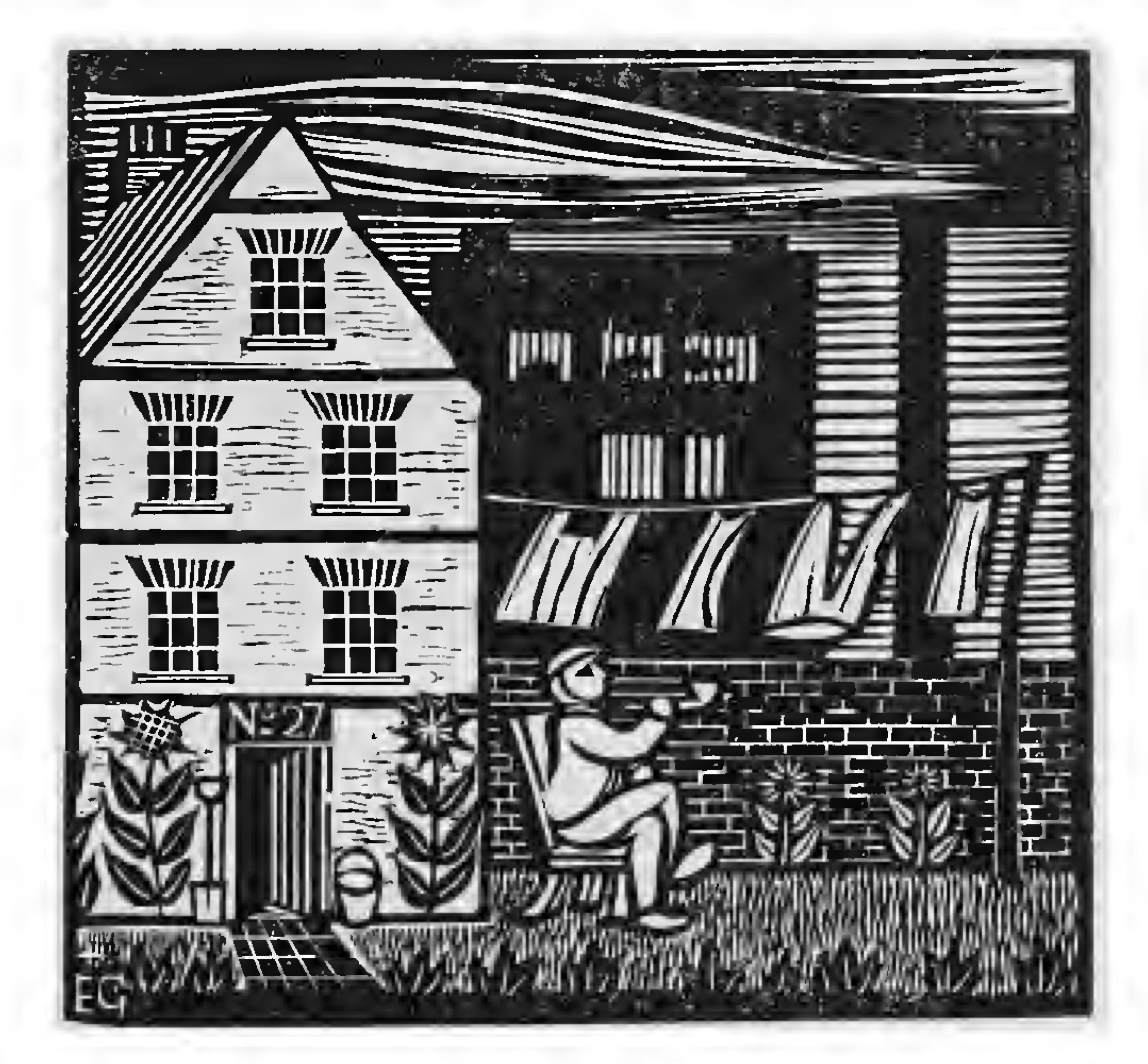 An Eric Gill woodcut showing Hammersmith, illustrating the book The Devil's devices, or, Control versus Service by Hilary Pepler.